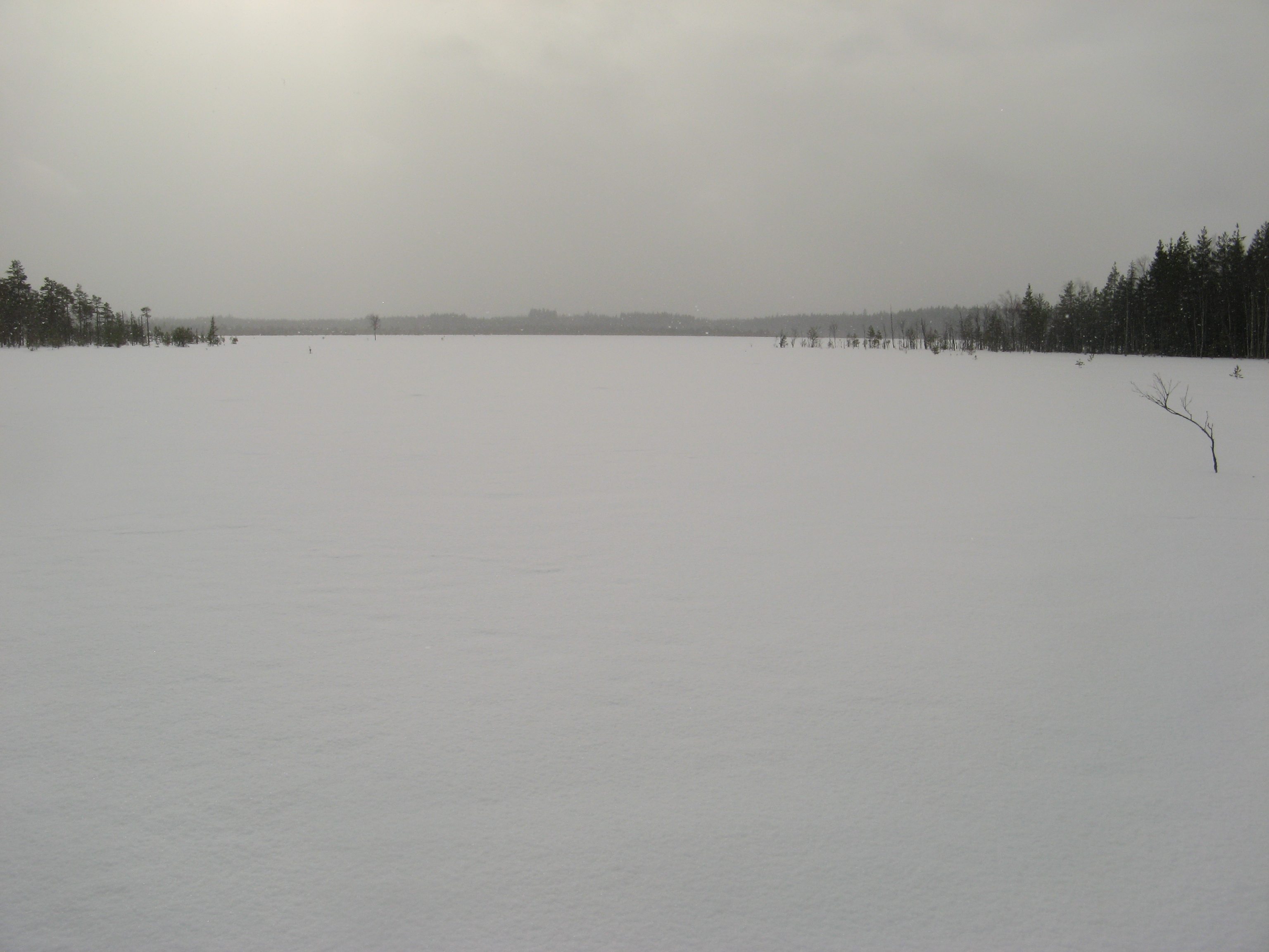 Kurjenrahka mire in Kurjenrahka National Park in wintertime. This south-western part of the bog is hard to reach in summertime. View to the south in middle march 2010. Light snowfall with the sun hardly visible through the clouds